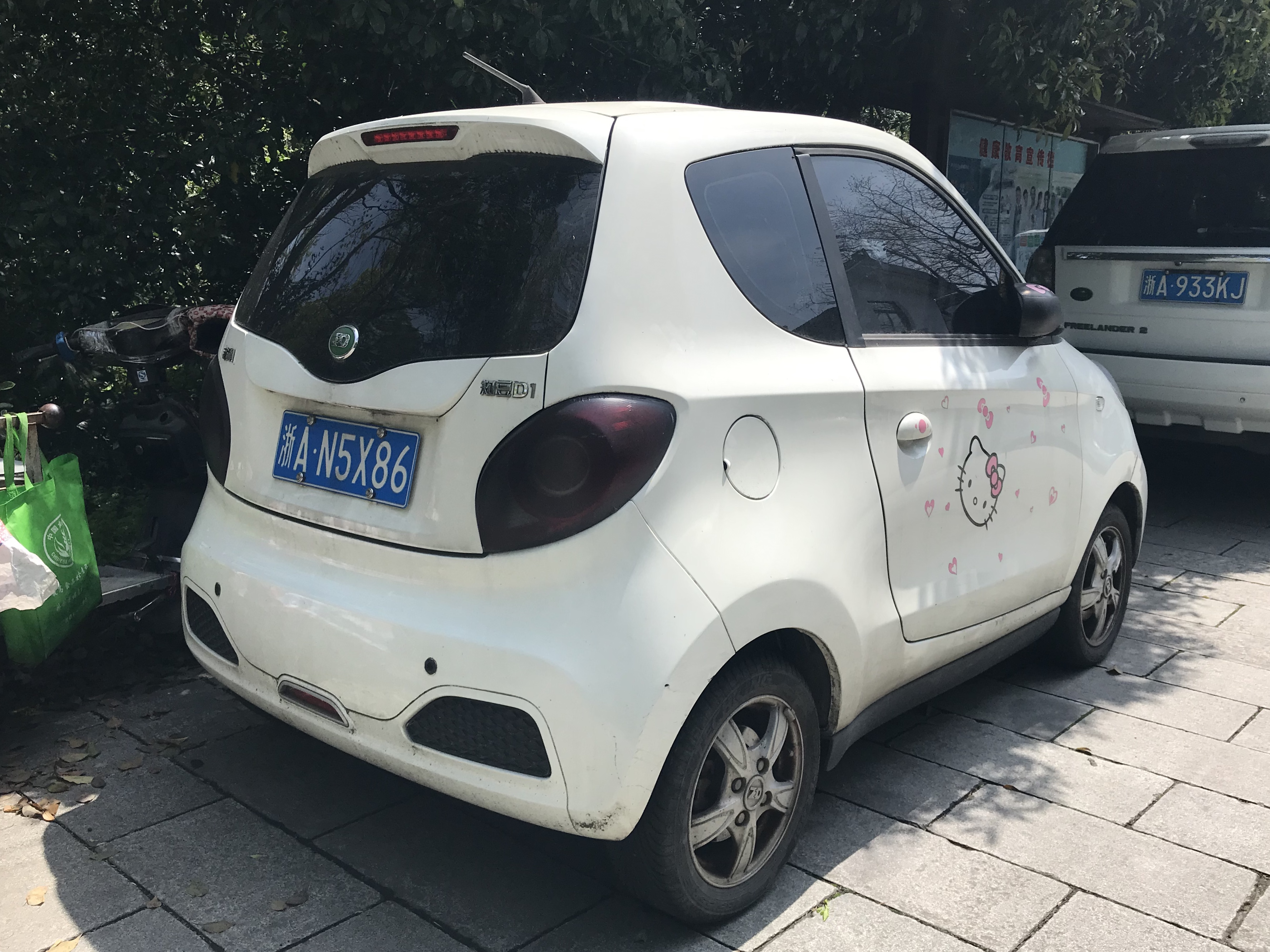 Zhidou D1 rear